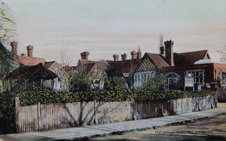 Old postcard of the Cottage Hospital, Bromley, Kent